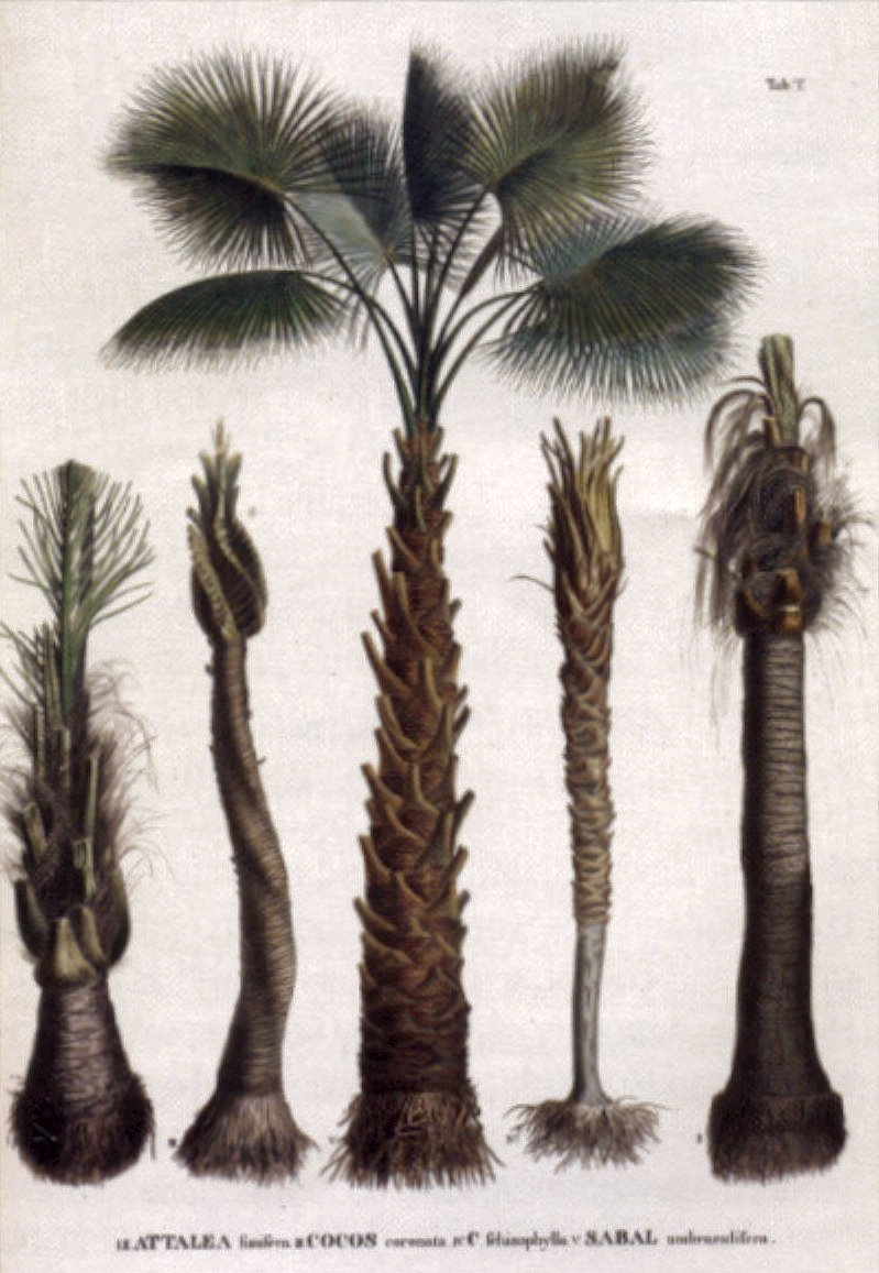 Varieties of Palm Trees in 'Historia Naturalis Palmarum' by Karl Martius, 1833, Loy McCandless Marks Library